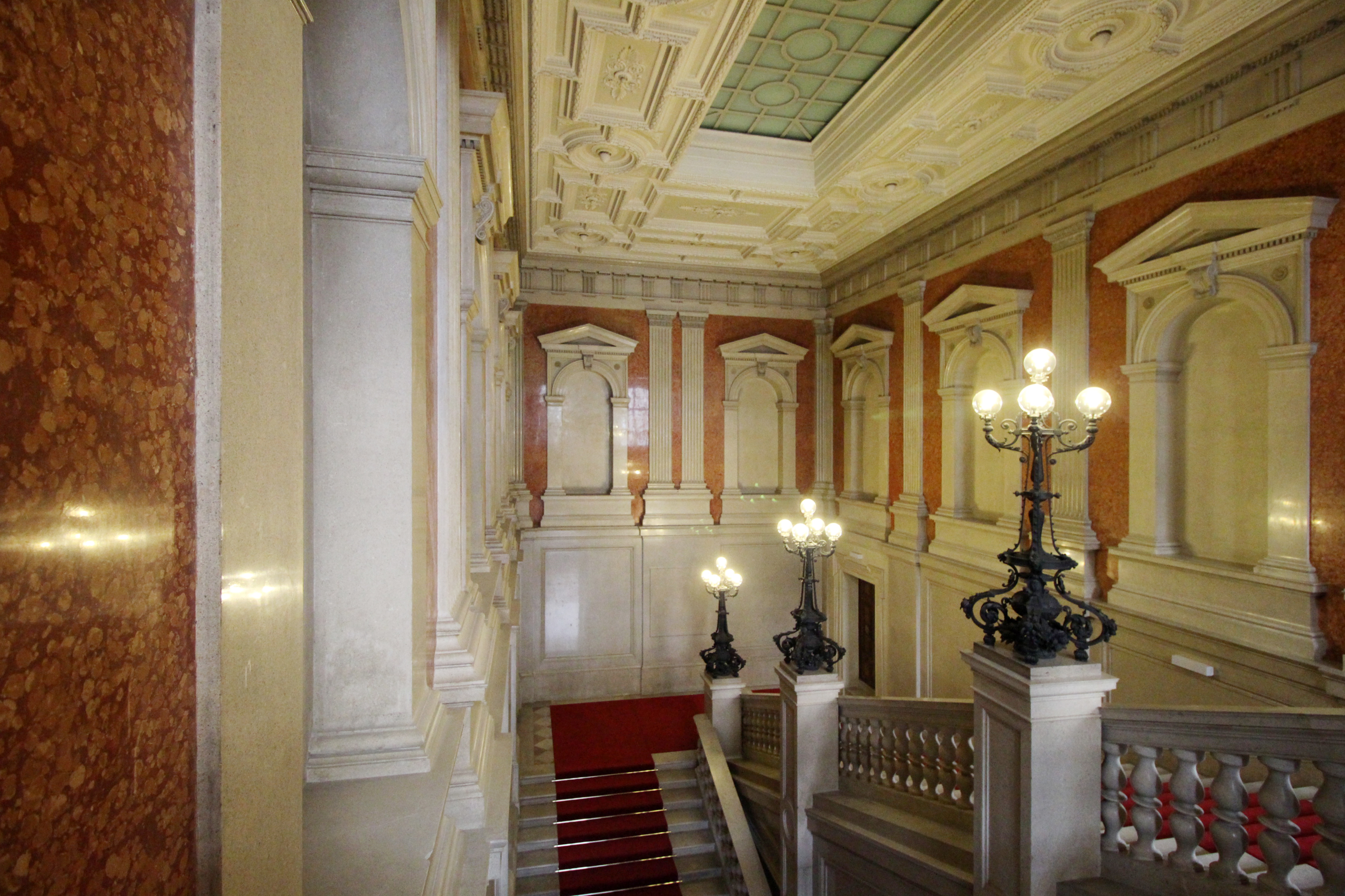 Deutschmeisterpalais/Palais Erzherzog Wilhelm, OFID Dieses Bild wurde anlässlich des österreichischen Tags des Denkmals 2014 in Wien eingereicht.